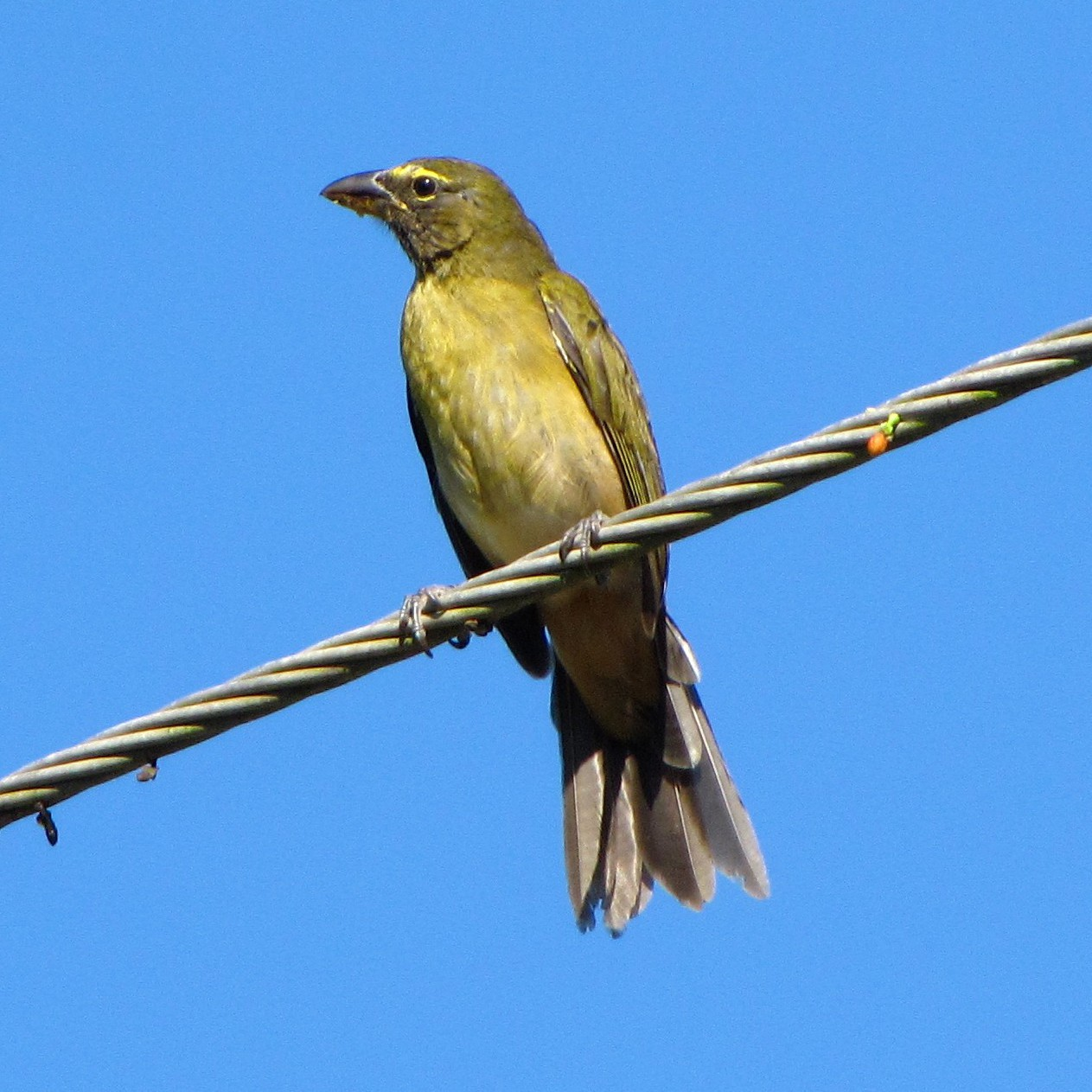 A juvenile Greyish Saltator in Ocumare de la Costa, Aragua, Venezuela.